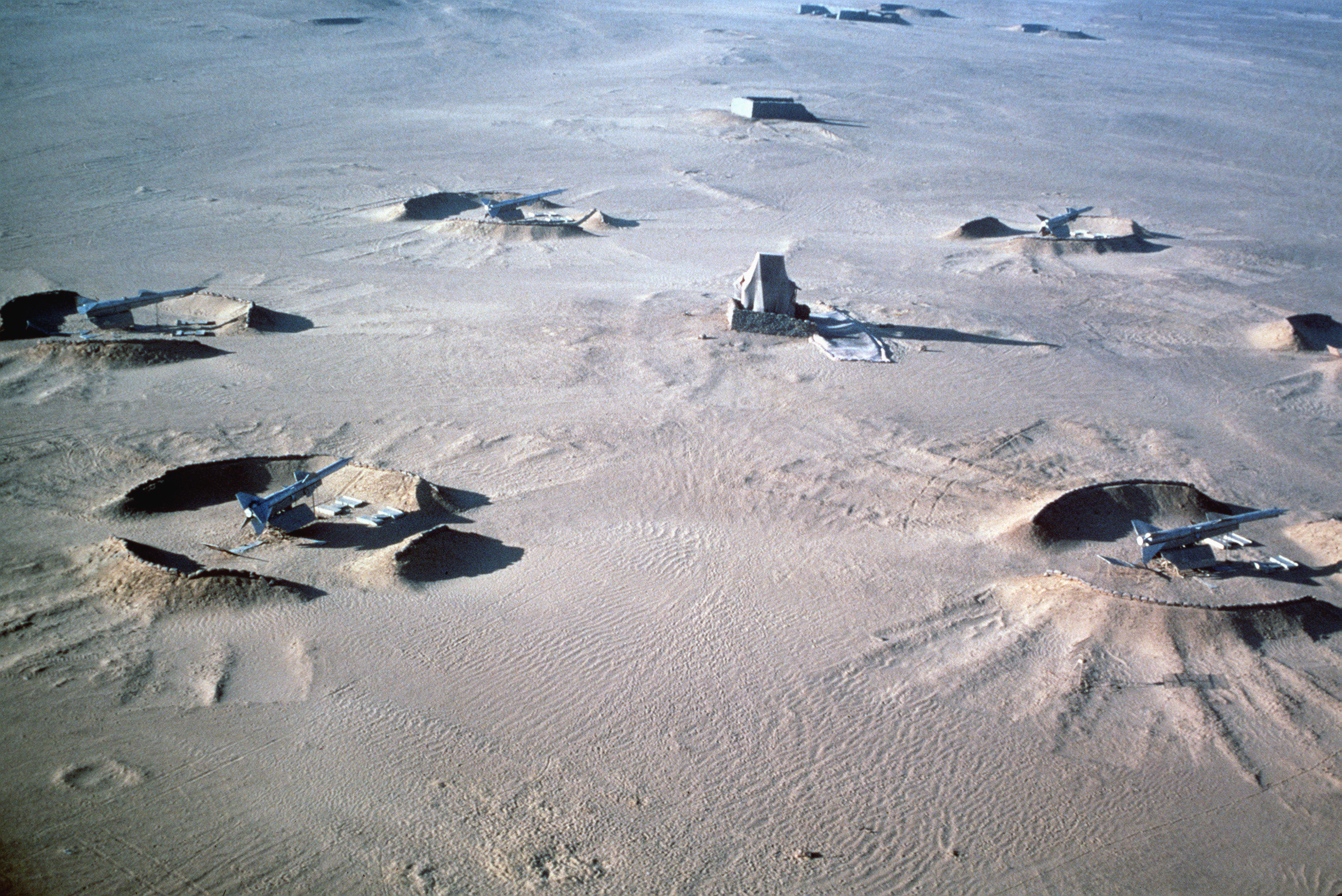 An aerial view of Soviet built SA-2B Guideline surface-to-air missiles positioned at a desert location.